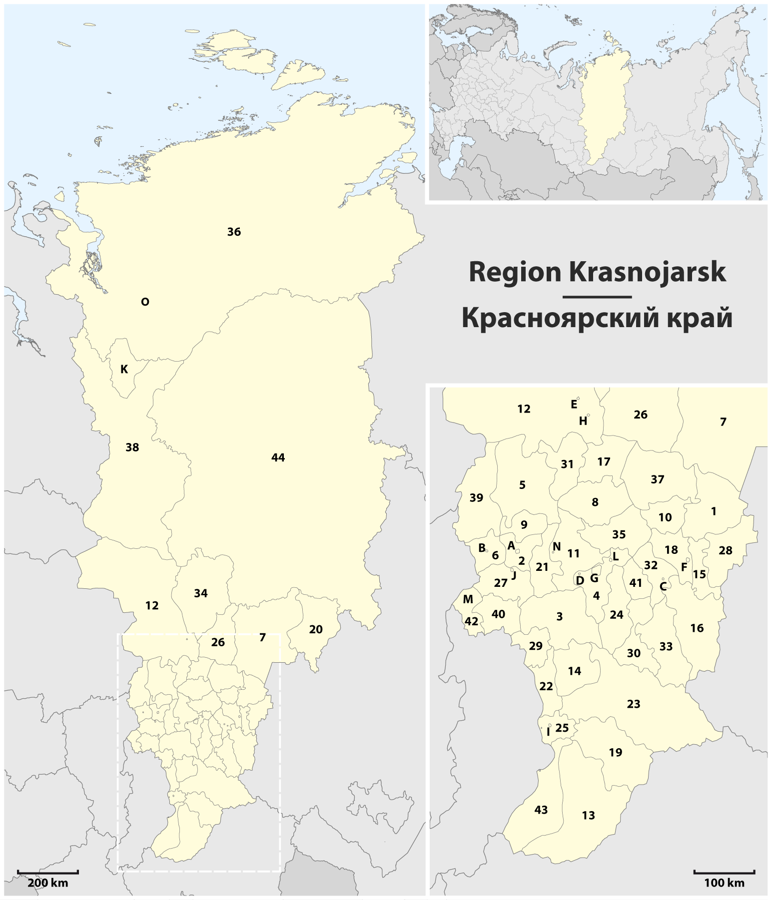 Map of the Krasnoyarsk Krai 1 Aban • Абанский 2 Atschinsk • Ачинский 3 Balachta • Балахтинский 4 Berjosowka • Берёзовский 5 Biriljussy • Бирилюсский 6 Bogotol • Боготольский 7 Bogutschany • Богучанский 8 Bolschaja Murta • Большемуртинский 9 Bolschoi Ului • Большеулуйский 10 Dserschinskoje • Дзержинский 11 Jemeljanowo • Емельяновский 12 Jenisseisk • Енисейский 13 Jermakowskoje • Ермаковский 14 Idrinskoje • Идринский 15 Ilanski • Иланский 16 Irbeiskoje • Ирбейский 17 Kasatschinskoje • Казачинский 18 Kansk • Канский 19 Karatusskoje • Каратузский 20 Keschma • Кежемский 21 Kosulka • Козульский 22 Krasnoturansk • Краснотуранский 23 Kuragino • Курагинский 24 Mana • Манский 25 Minussinsk • Минусинский 26 Motygino • Мотыгинский 27 Nasarowo • Назаровский 28 Nischni Ingasch • Нижнеингашский 29 Nowosjolowo • Новосёловский 30 Partisanskoje • Партизанский 31 Pirowskoje • Пировский 32 Rybnoje • Рыбинский 33 Sajansk • Саянский 34 Sewero-Jenisseisk • Северо-Енисейский 35 Suchobusimskoje • Сухобузимский 36 Taimyr • Таймырский 37 Tassejewo • Тасеевский 38 Turuchansk • Туруханский 39 Tjuchtet • Тюхтетский 40 Uschur • Ужурский 41 Ujar • Уярский 42 Scharypowo • Шарыповский 43 Schuschenskoje • Шушенский 44 Rajon der Ewenken • Эвенкийский A Atschinsk • Ачинск B Bogotol • Боготол C Borodino • Бородино D Diwnogorsk • Дивногорск E Jenisseisk • Енисейск F Kansk • Канск G Krasnojarsk • Красноярск H Lessosibirsk • Лесосибирск I Minussinsk • Минусинск J Nasarowo • Назарово K Igarka • Игарка L Sosnowoborsk • Сосновоборск M Scharypowo • Шарыпово N Kedrowy • Кедровый O Norilsk • Норильск